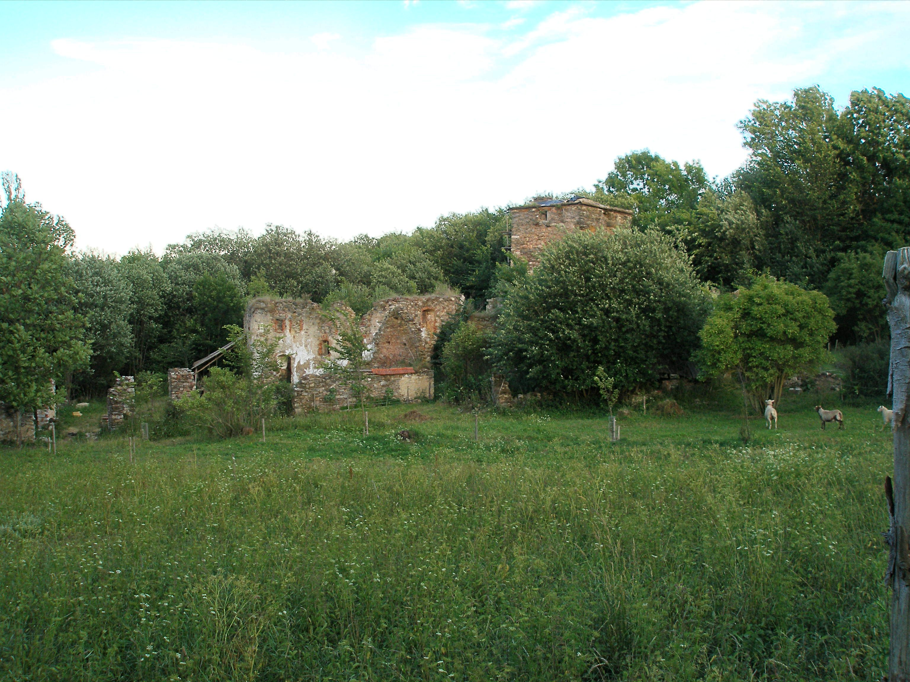 Pasovary - the ruin of the castle